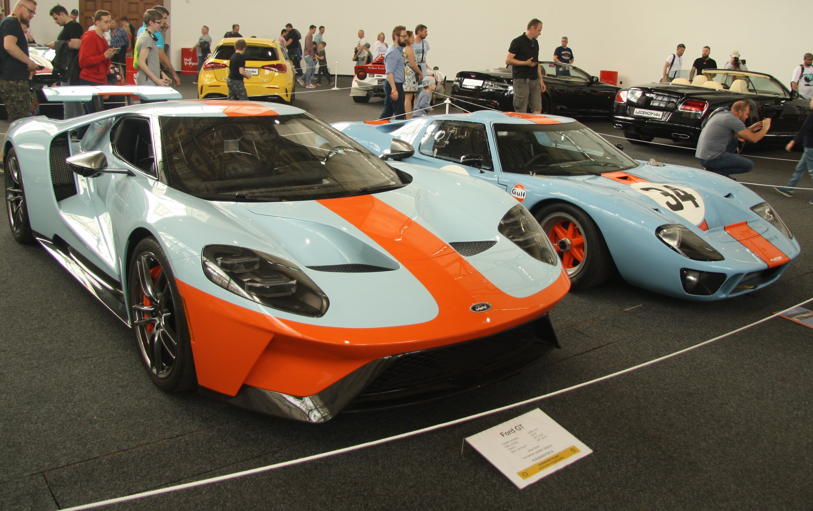 Ford GT 2018 and Ford GT 1968 at Legendy 2019 in Prague.